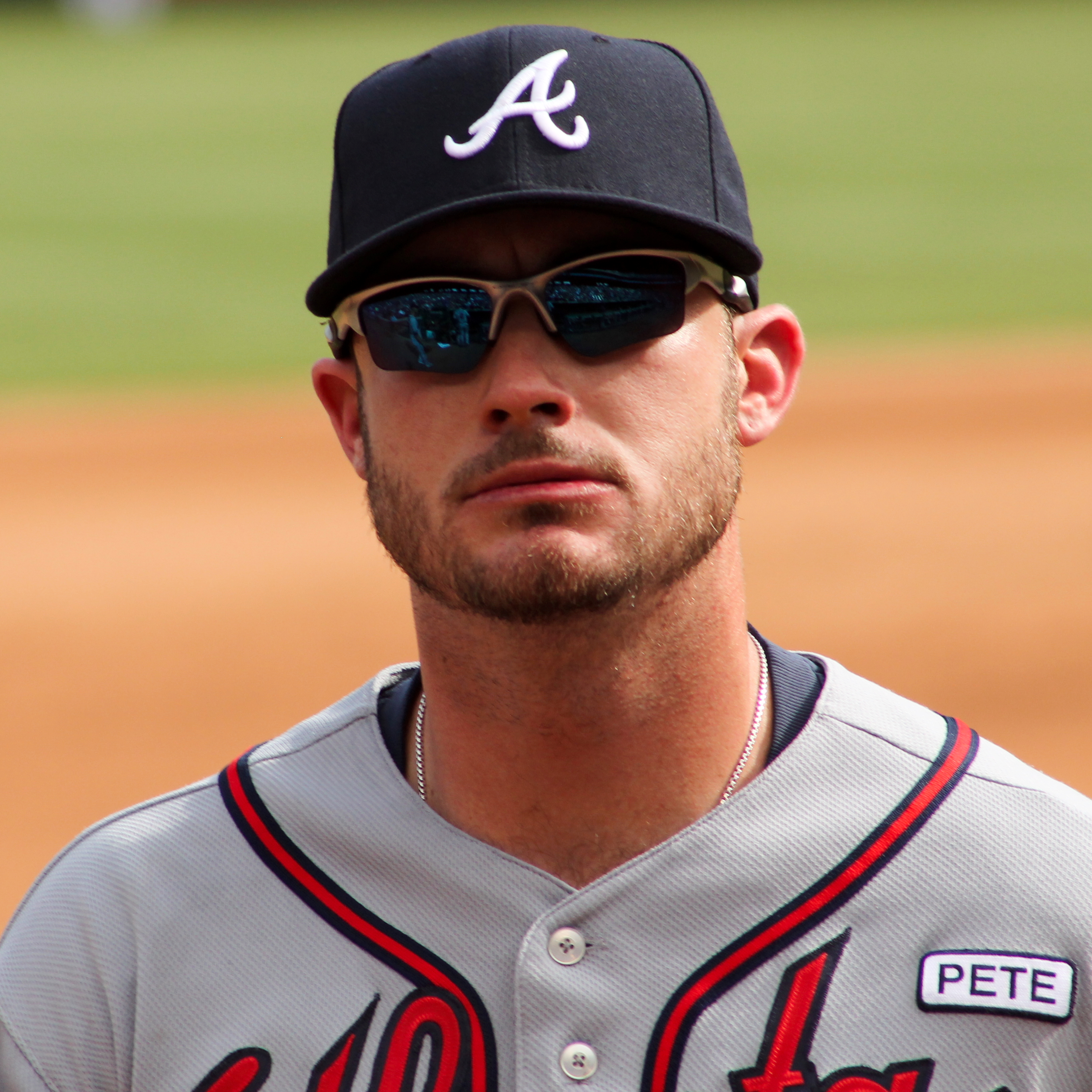 Professional baseball player Joey Terdoslavich plays in Arlington in September 2014.